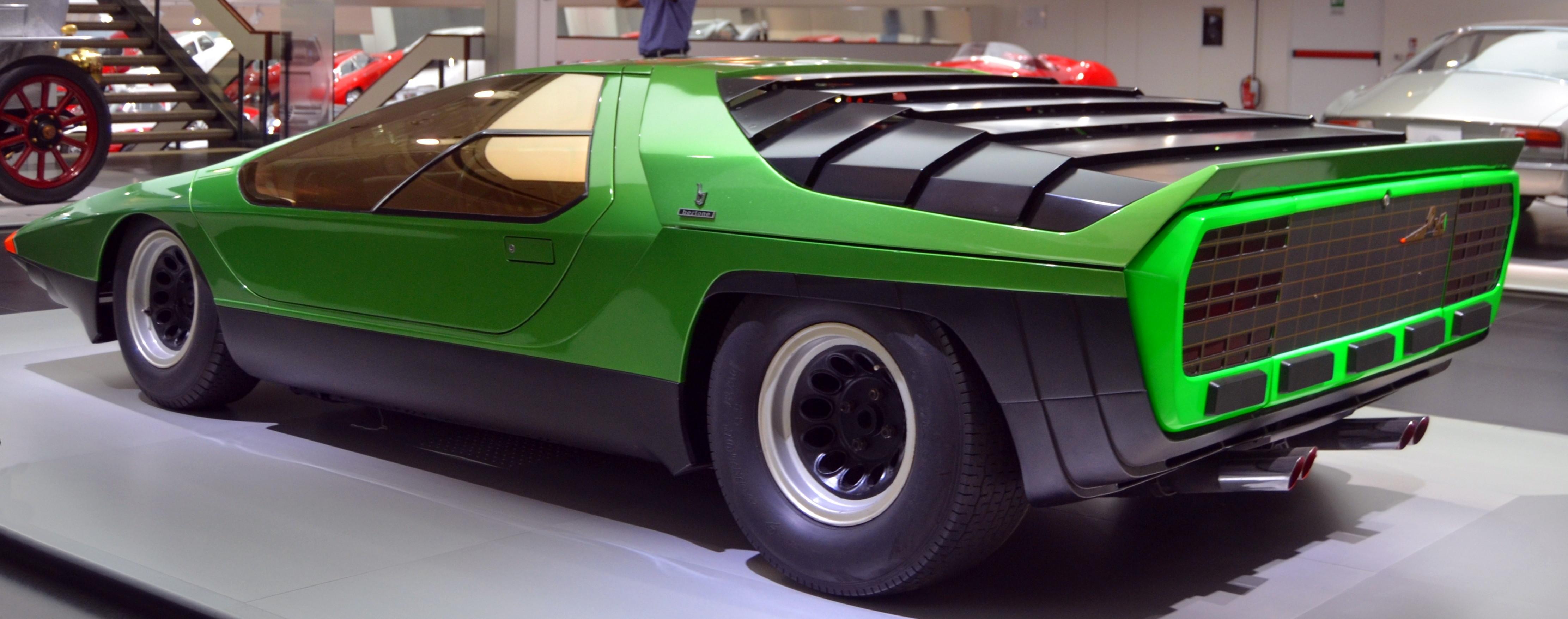 Alfa Romeo Carabo (Bertone): Museo storico Alfa Romeo, Arese, Milano, Italy